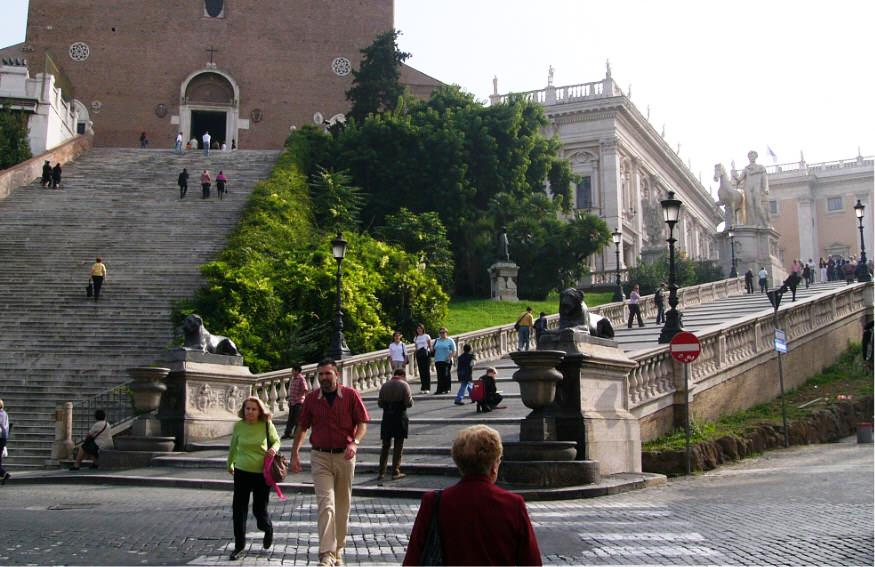 Roma: Stairs to Ara Coeli (left), Michelangelo's Cordonata (right)